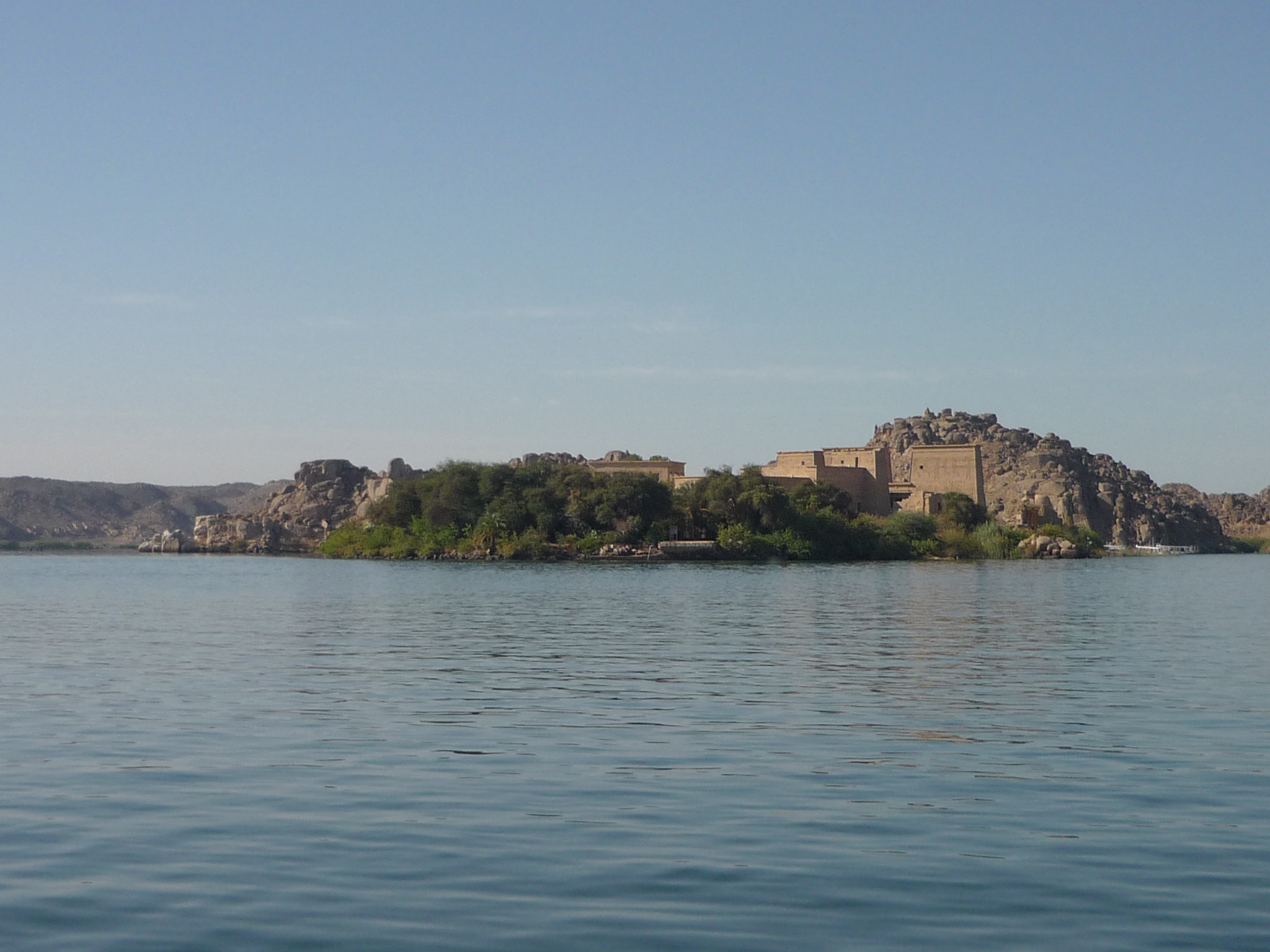 Aguilkia Island, with ancient temples relocated from flooded Philae and Bigeh Islands beyond, in Lake Nasser - Egypt.